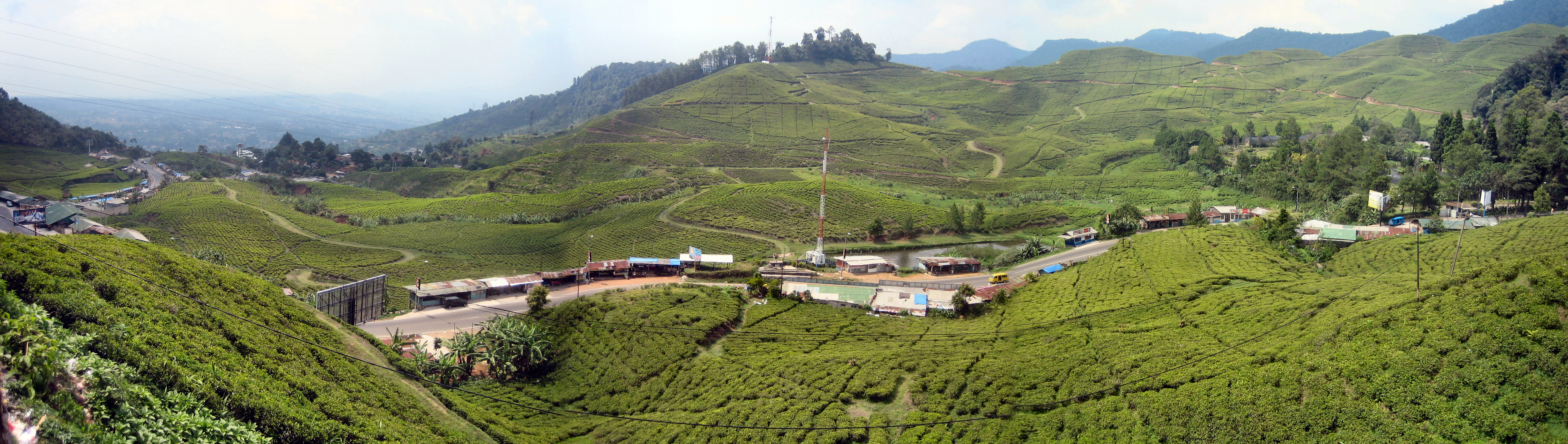 Puncak Pass Java - Indonesia Picture taken november 2006 by Hullie